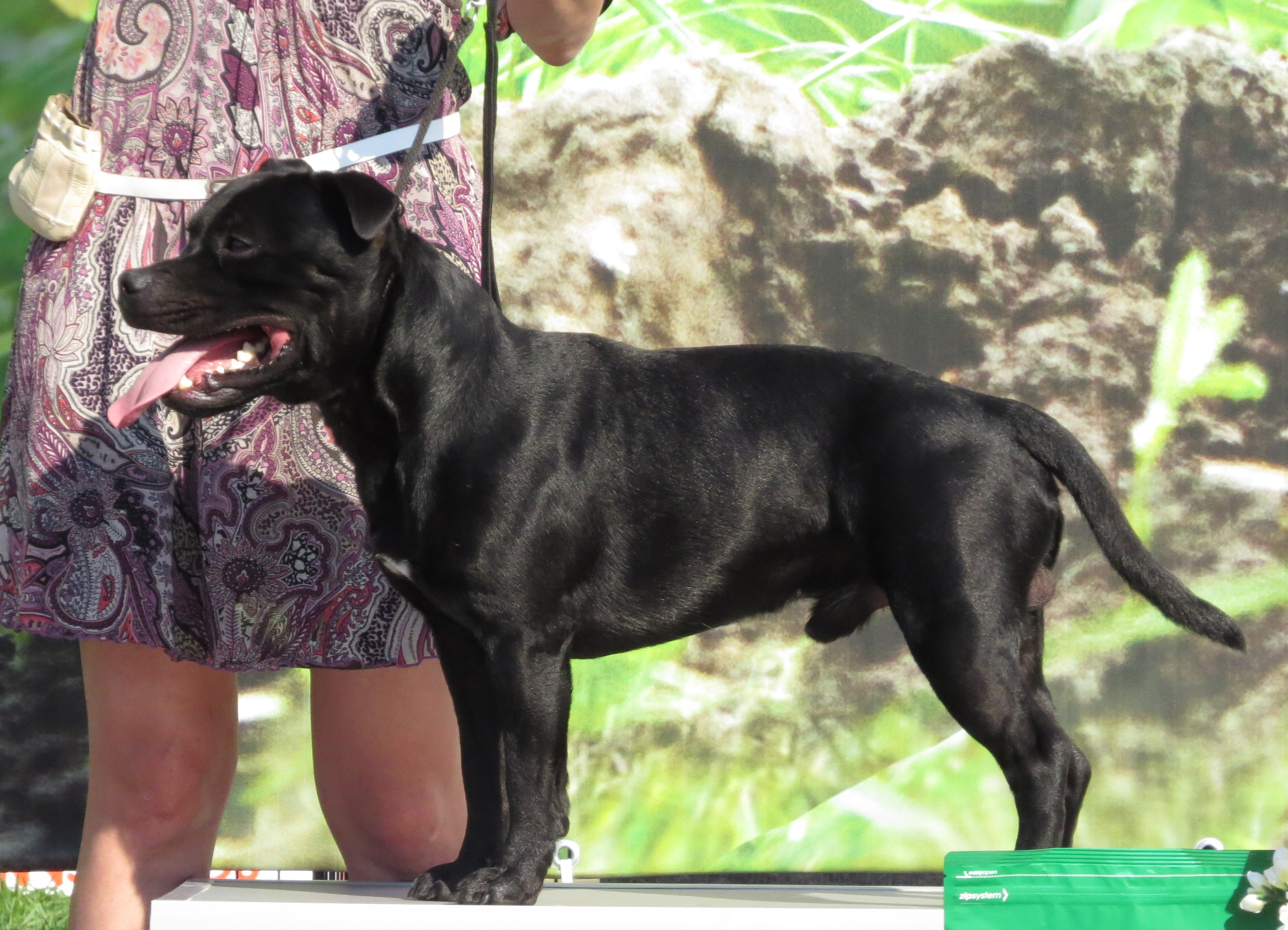 Tallinn, Estonia, duo CACIB 2013, August 17-18